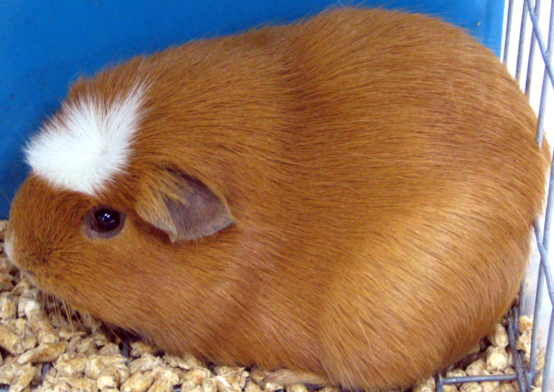 An American Crested guinea pig (Flickr description: a small number of Cavies were on display in one of the exhibitor buildings at the 2006 State Fair""